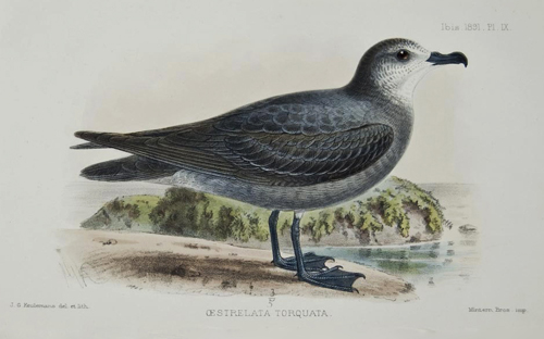 Plate IX from 'The Ibis,' 1891. The name "torquata" is the dark form of "Pterodroma brevipes;" some earlier authors considered the two as separate entities.